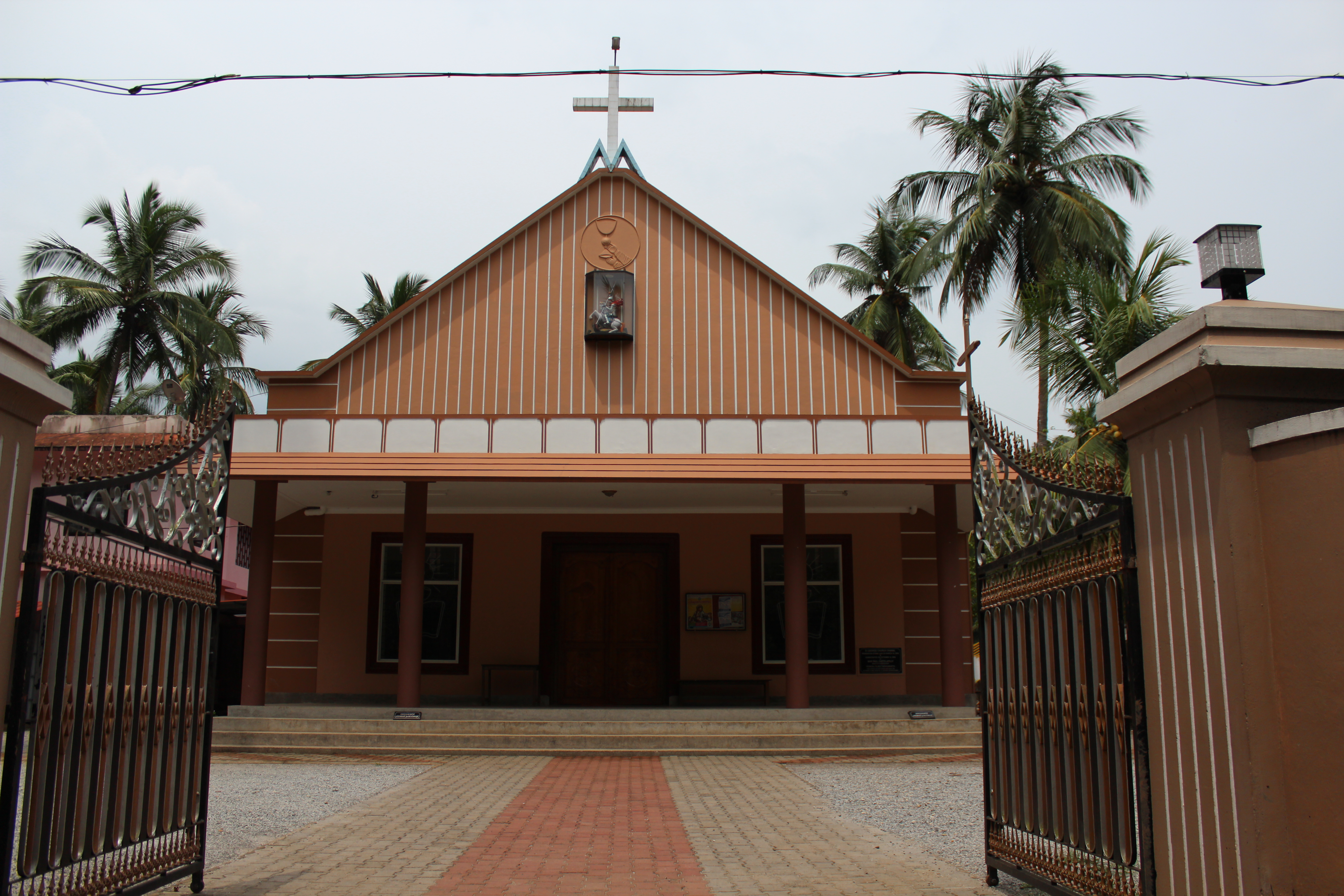 christian church in chamal town